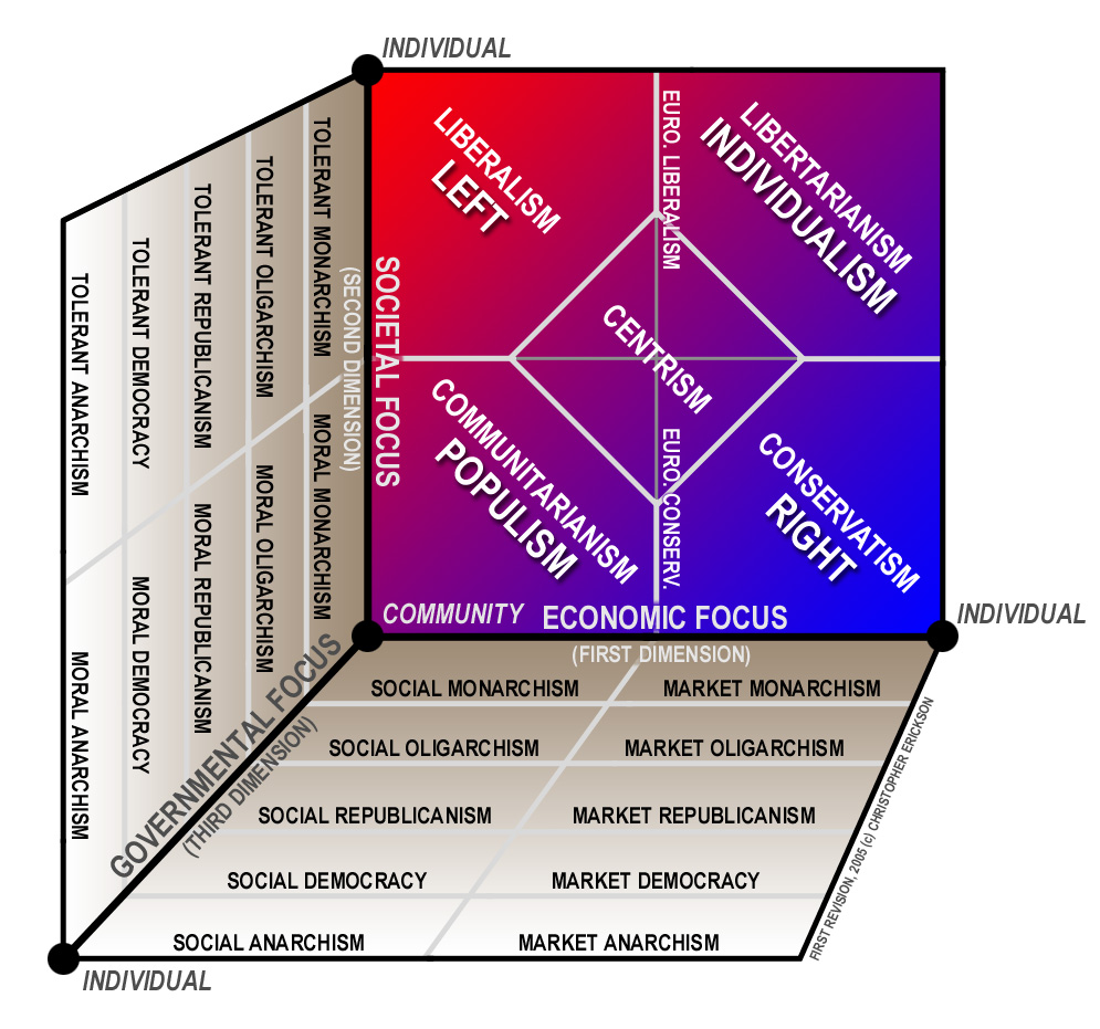 Revised NPOV political chart